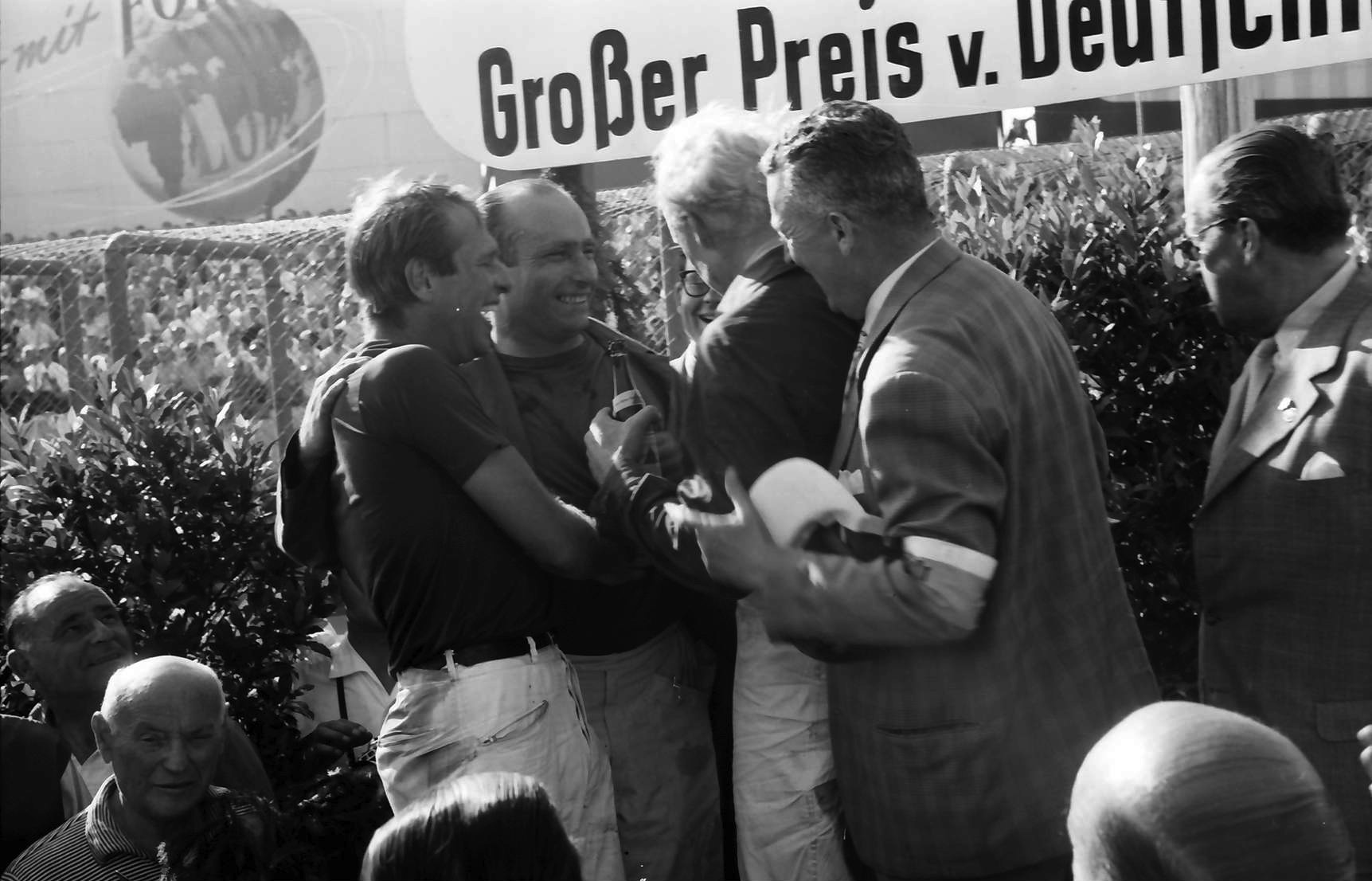 Third-placed driver Peter Collins (left), race winner Juan Manuel Fangio (centre left), and second-placed driver Mike Hawthorn (centre right, blond hair) celebrate together on the podium following the 1957 German Grand Prix, at the Nürburgring, West Germany.